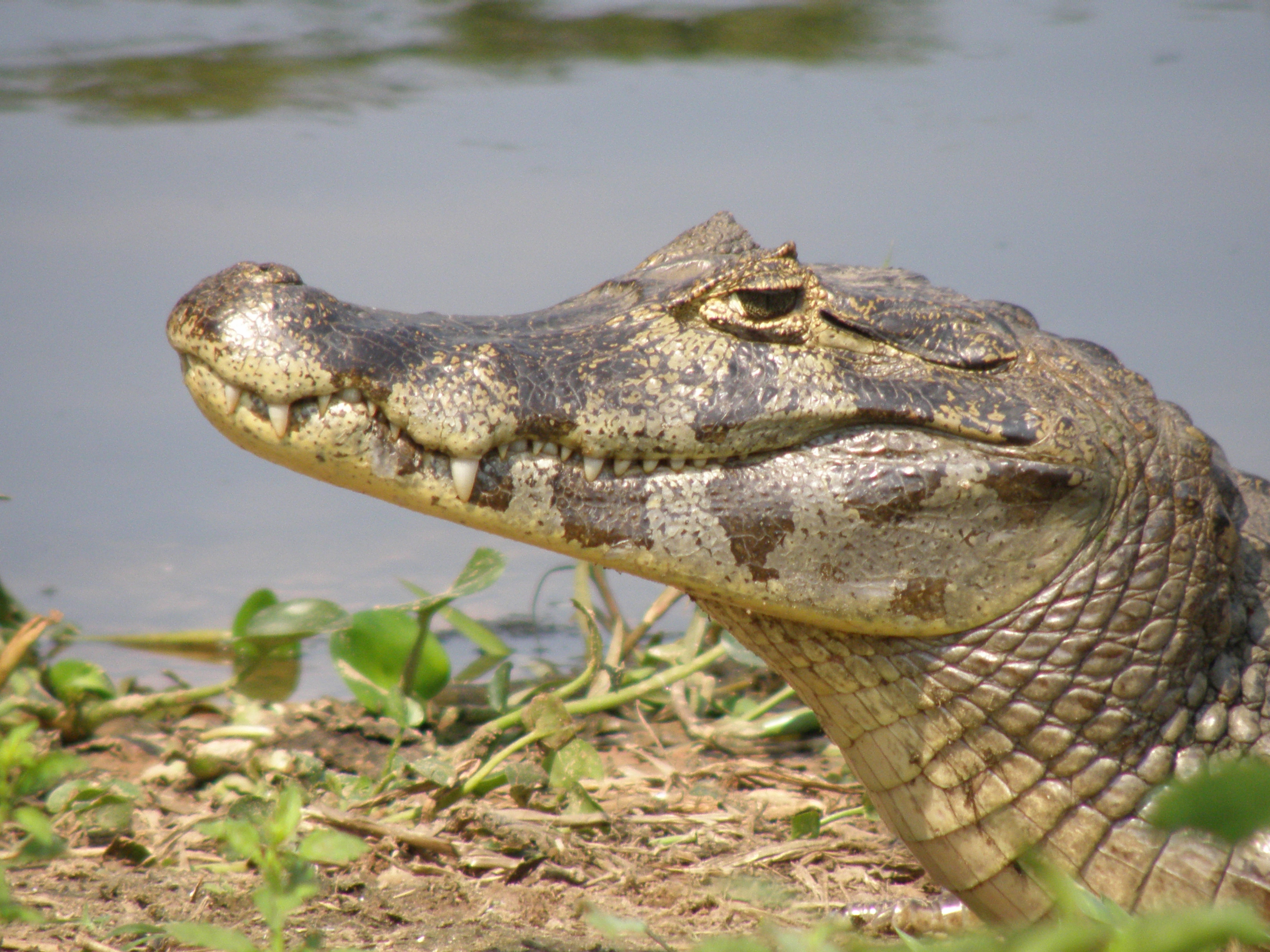 Head of caiman " Jacara " to Piuval-Pantanal ( Brazil)